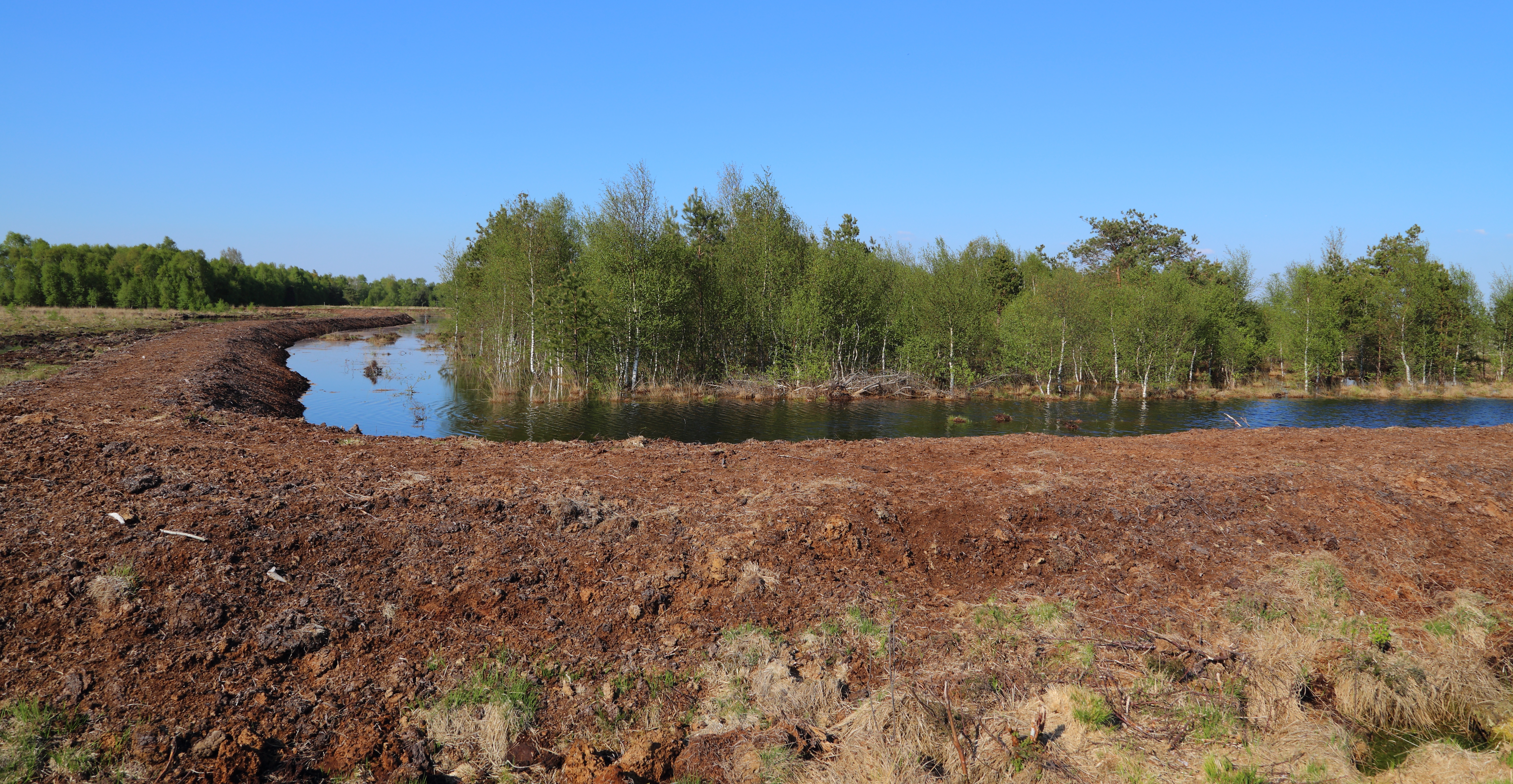 At the nature reserve Hahnenmoor, a large bog area near Dohren, Landkreis Emsland, Lower Saxony, Germany.